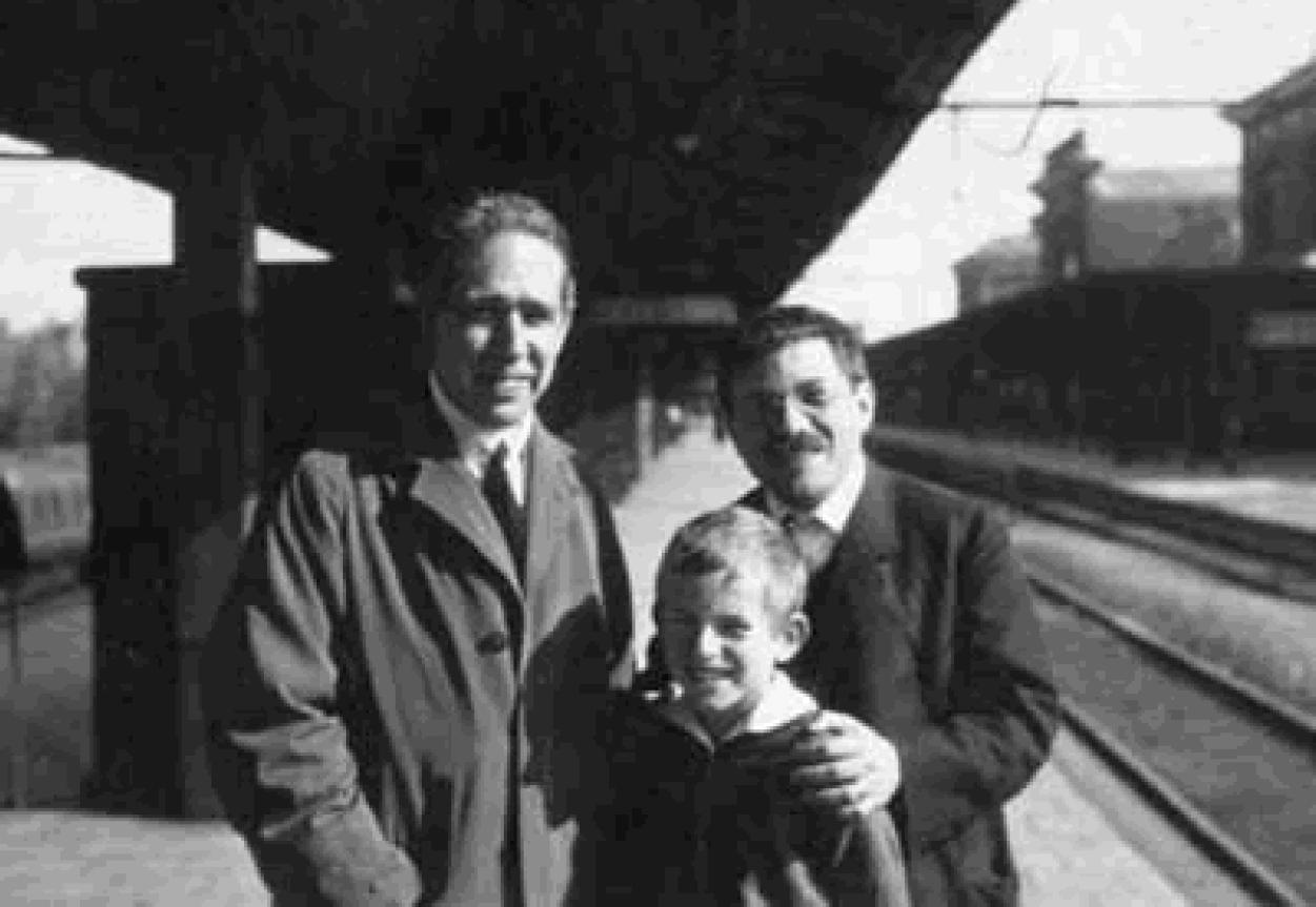 at the railroad station of Leiden. People on the picture from left to right: Bohr, N.; Ehrenfest, Paul; Paul, Jr. ('Pavlik') (1915–1939)